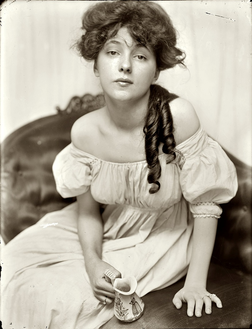 "Miss N" Photoportrait of Evelyn Nesbit, 1903